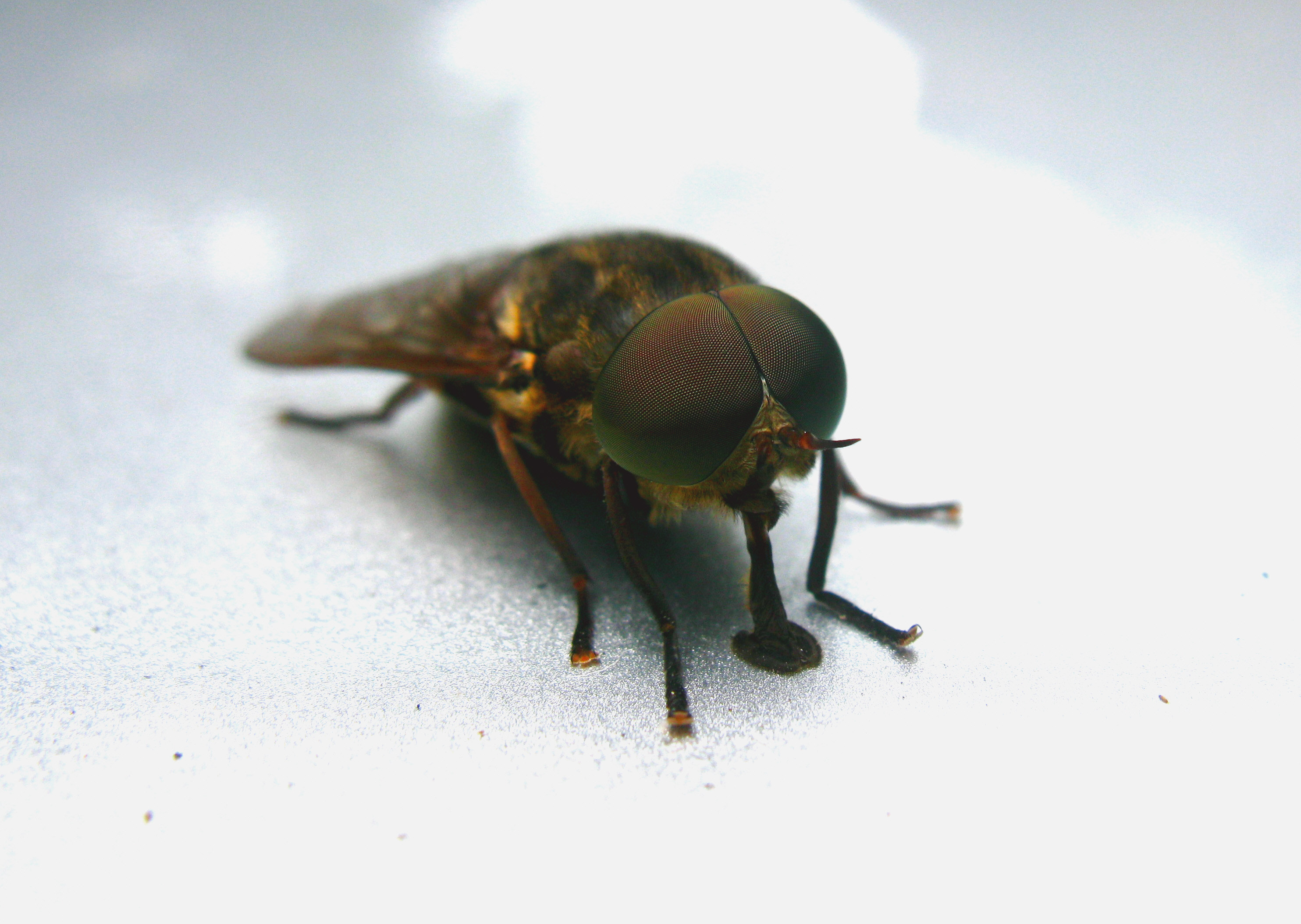 Male Horse-fly (Diptera, family Tabanidae) in Southern Germany, 2009.